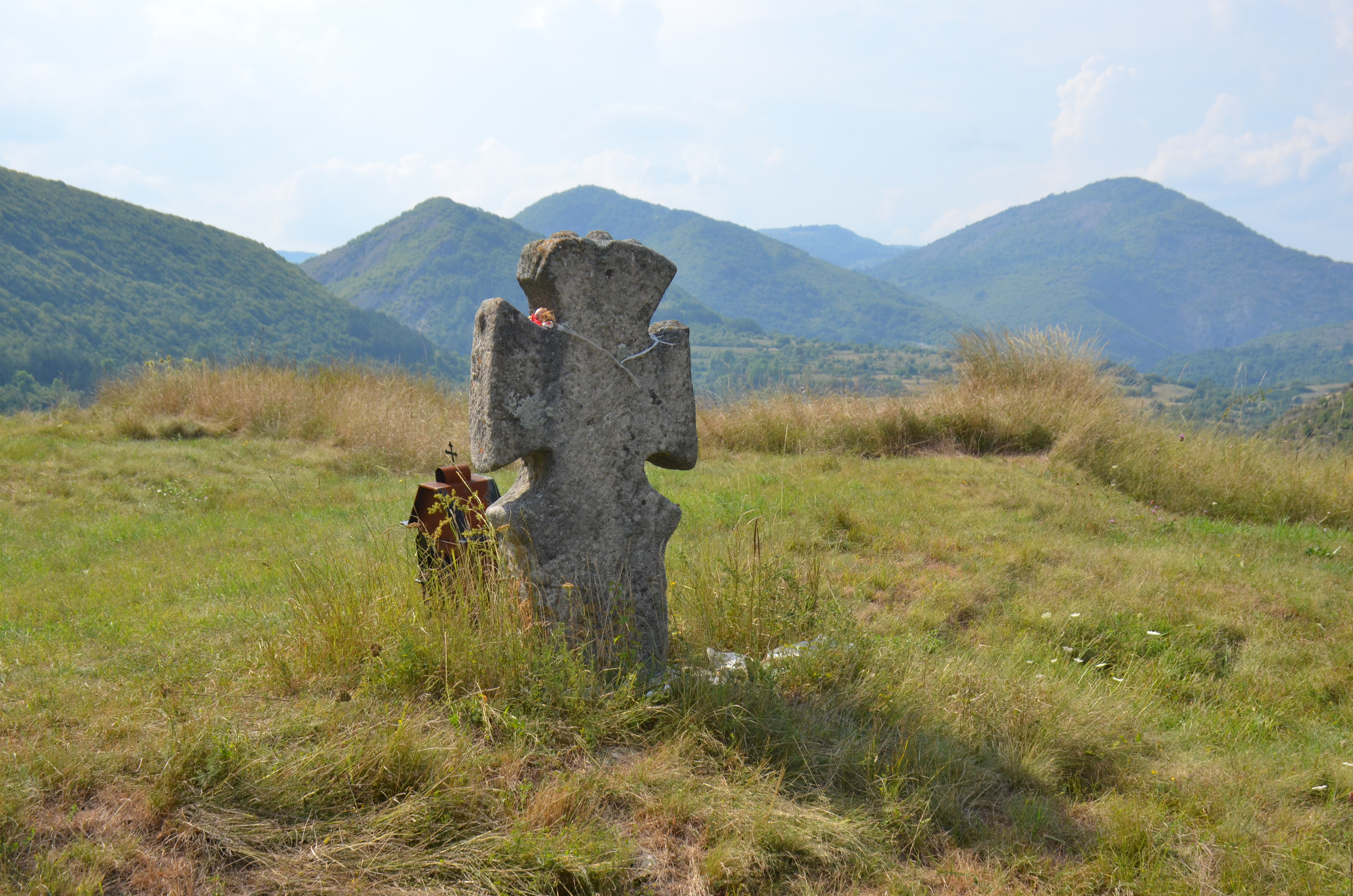 Obrok - Sacred Stone Cross, a stone cross in village Rsovci, municipality Pirot, Serbia Srpski (latinica): Оbrok Sveta Petka 1833, selo Rsovci, Opština Pirot, Pirotski okrug, Srbija Srpski (latinica): Оброк Света Петка 1833, село Рсовци, Општина Пирот, Пиротски округ, Србија